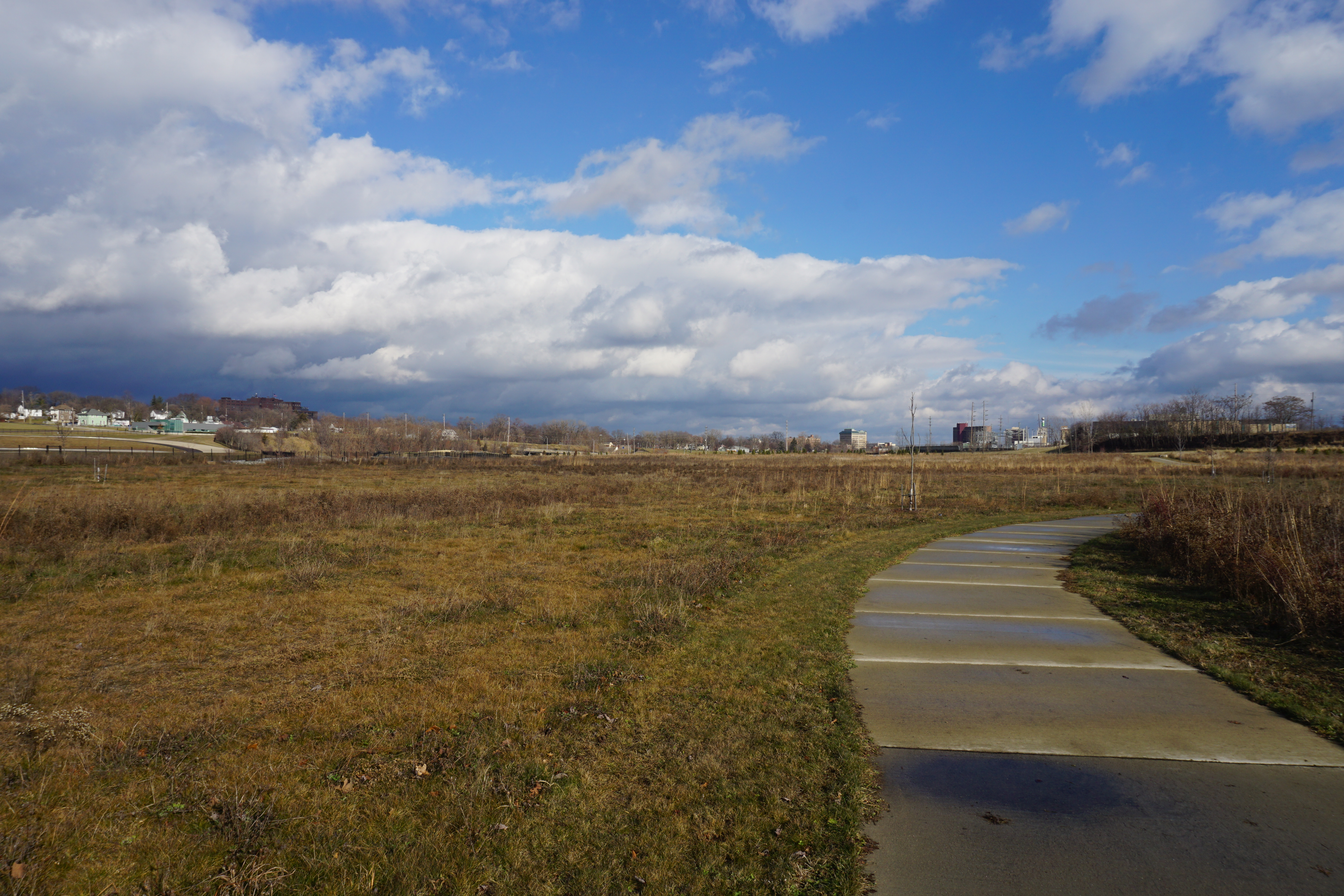 Chevy Commons in Flint, Michigan (United States).